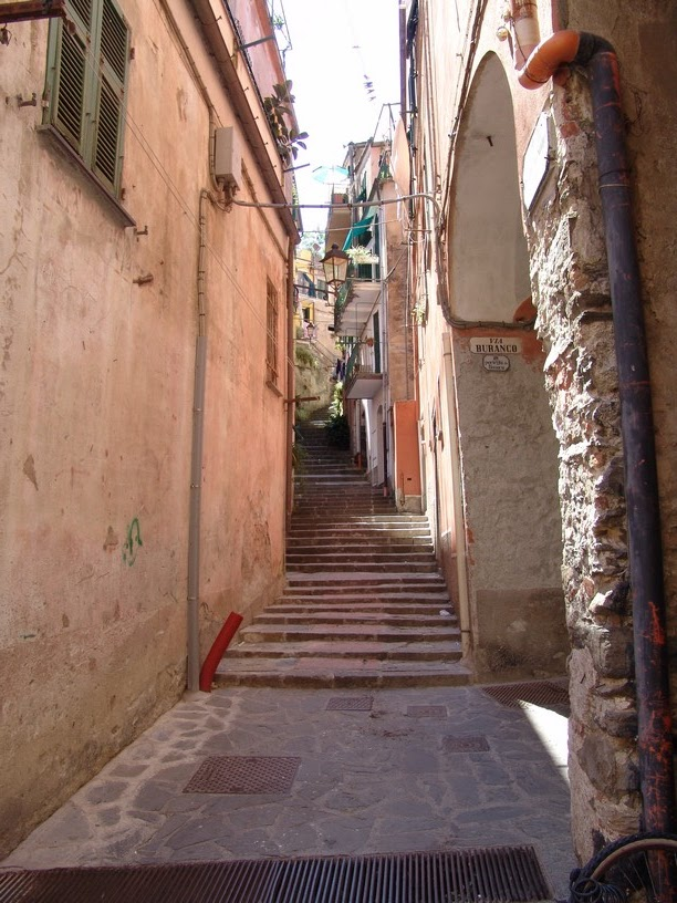 Street in Moterosso village